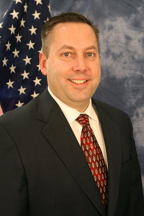 Photo of Mark Waller (Colorado Legistator, HD15)